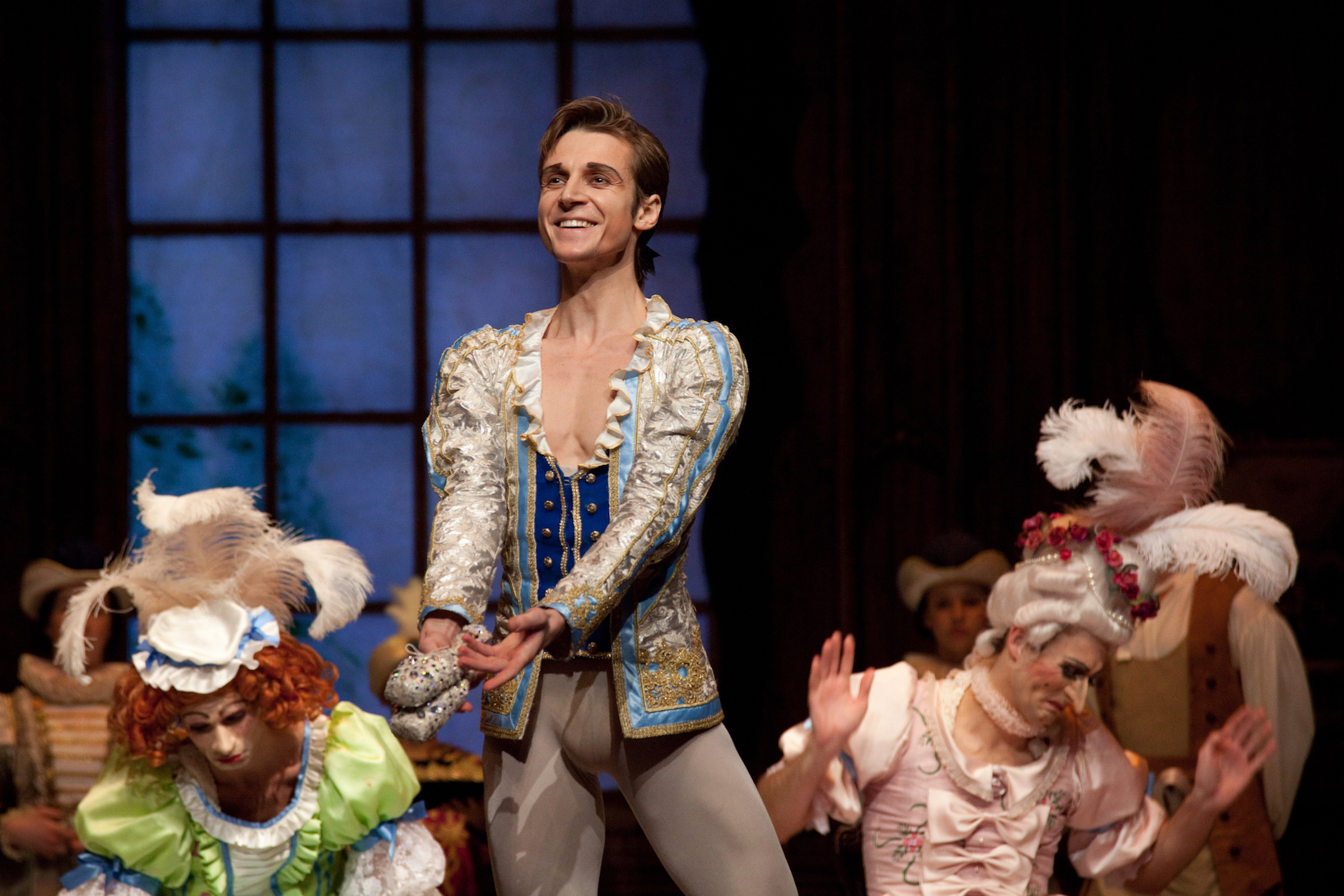 Maksim Woitiul (Prince) and Carlos Martín Pérez & Sergey Basalaev (Stepsisters), "Cinderella" by Frederick Ashton, Polish National Ballet